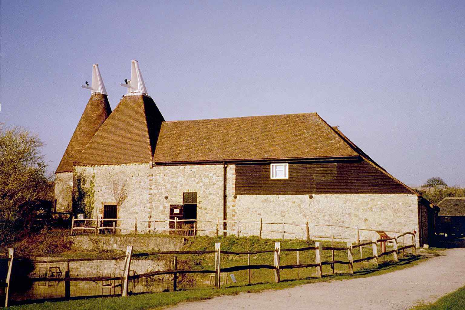 Oast at Kent Museum of Rural Life